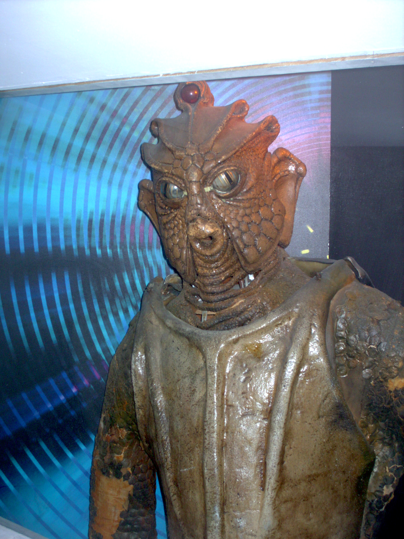 Siluarian from the Peter Davison Story "Warriors of the Deep" Doctor Who Experience